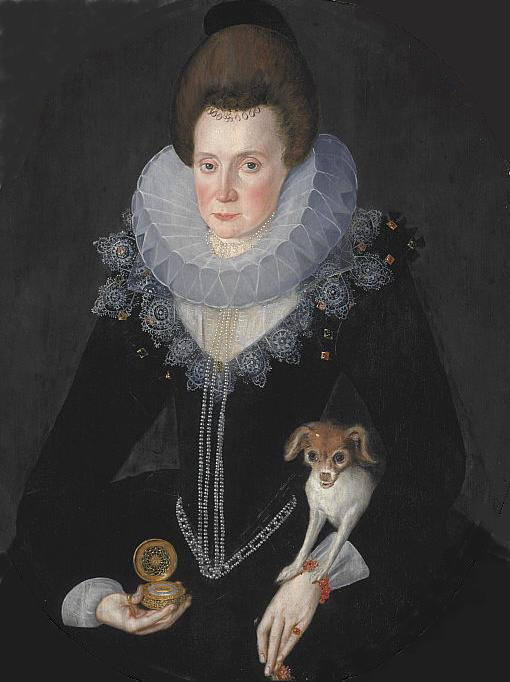 Lady Arabella Stuart, also known as Arbella. She was at one time considered heir to the English and Scottish thrones, though she did not aspire to them. She died of self-inflicted starvation in the Tower of London, in 1615. Contrary to the title given by the Scottish National Galleries, her father was either the 5th earl of Lennox, or the 1st earl of Lennox of the 3rd creation.